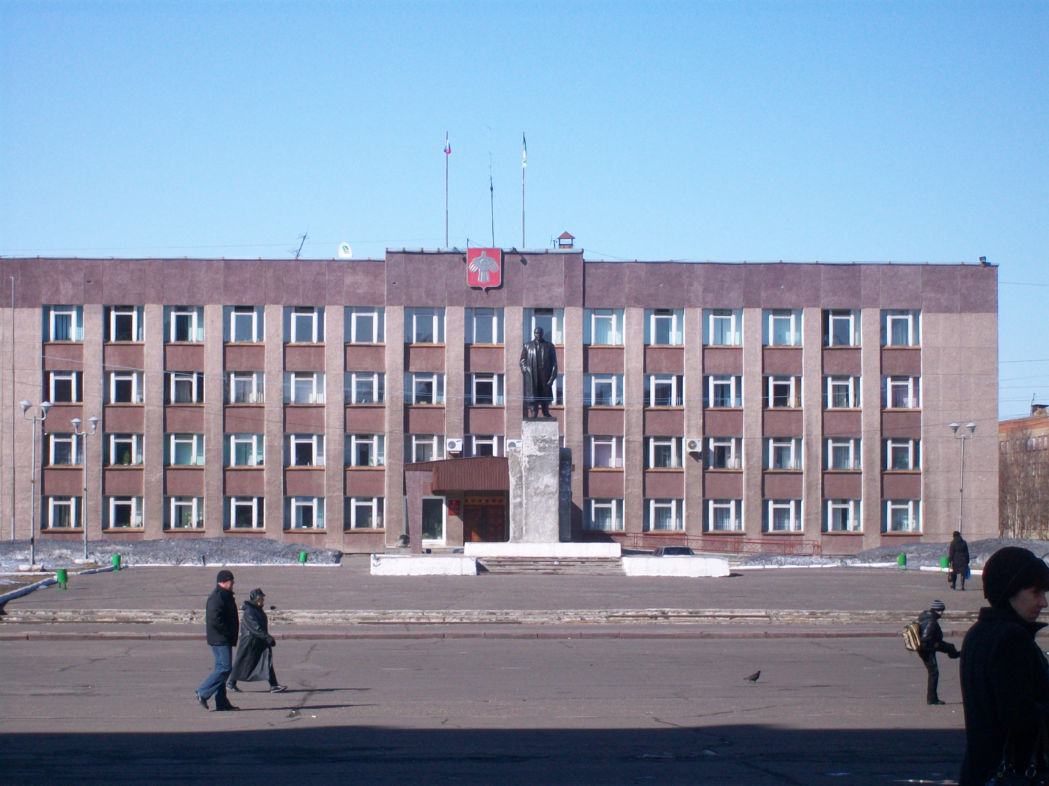 Administration of Inta